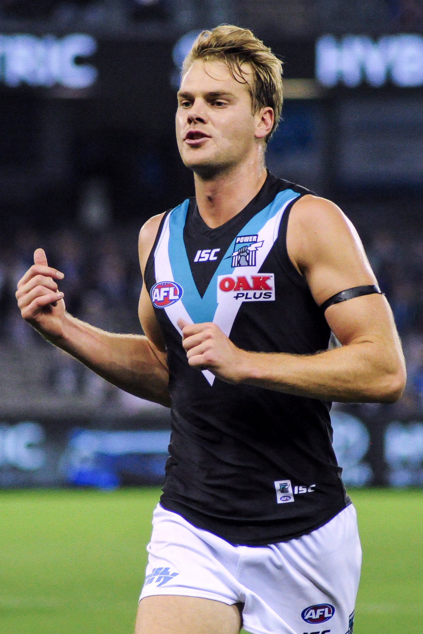 Jack Watts during the AFL round six match between North Melbourne and Port Adelaide on Saturday, 28 April 2018 at Etihad Stadium in Melbourne, Victoria.